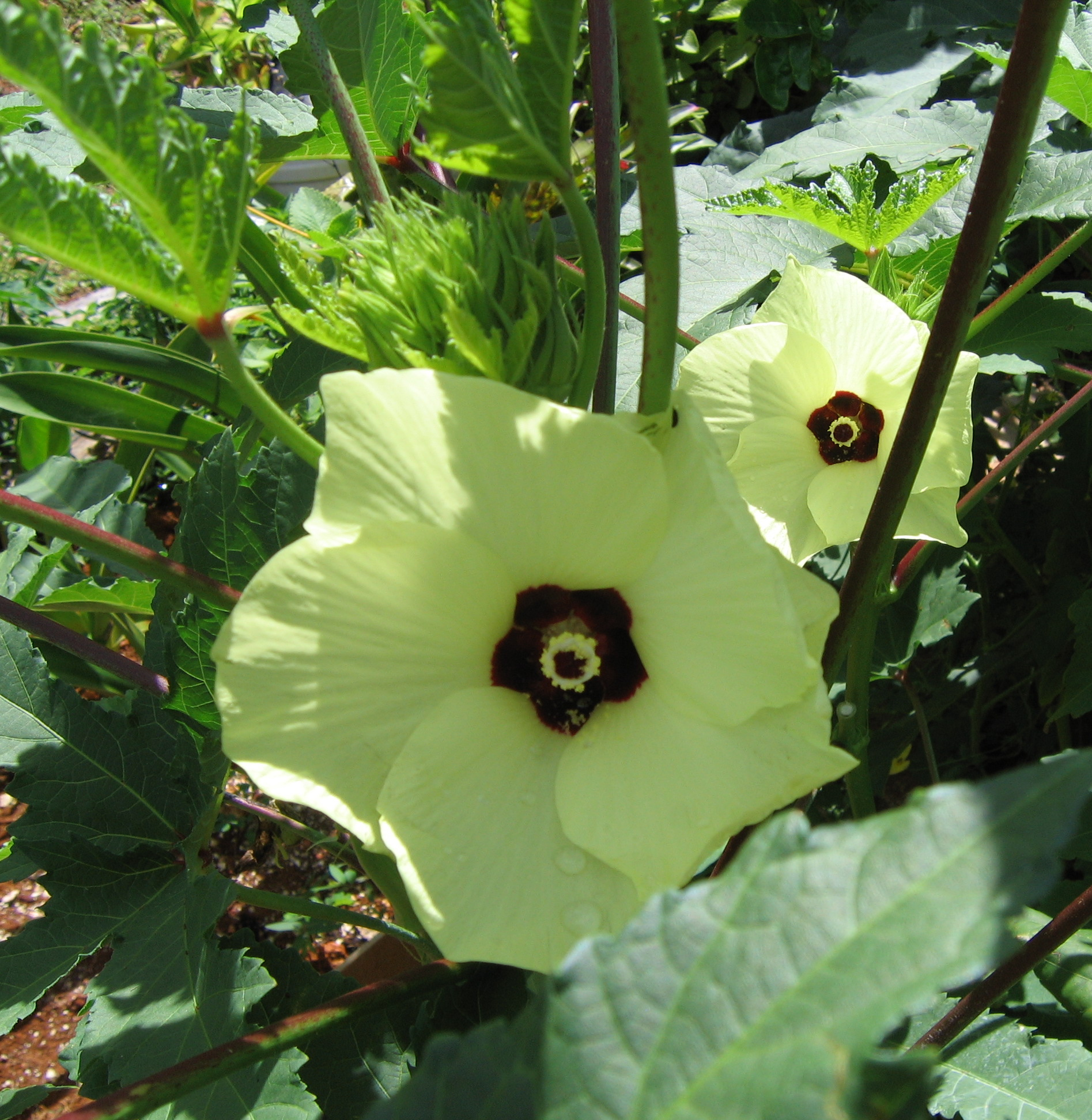 Okra plants (Abelmoschus esculentus) focusing on two blossoms